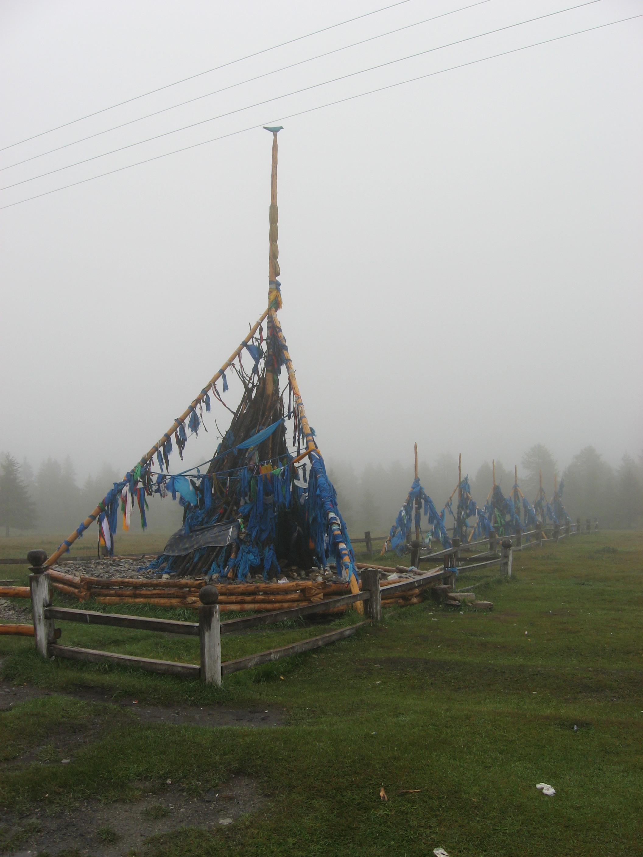 Seven of the 13 ovoos at Öliin Davaa (Davaa = mountain pass), the entry to the Darkhad valley, Khövsgöl, Mongolia